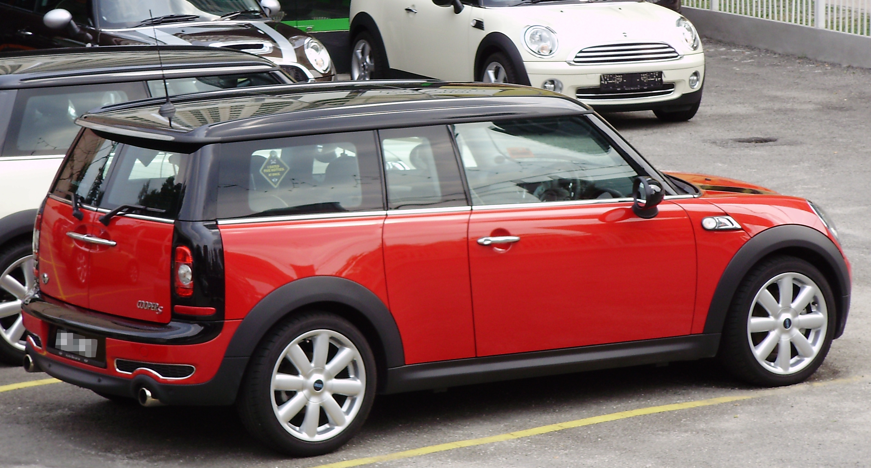 Rear quarter view of a MINI Clubman (Cooper S) in Bukit Bintang, Kuala Lumpur, Malaysia.